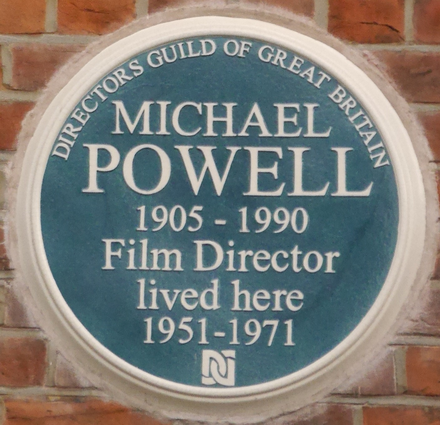 8 Melbury Road W14 Wikidata has entry Q4645237 with data related to this building.